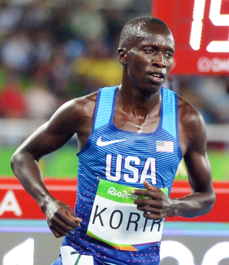 Spcs. Leonard Korir and Shadrack Kipchichir finish 14th and 19th respectively in the men's 3,000-meter run Aug. 13 at the 2016 Rio Olympic Games in Rio de Janeiro. Both Soldiers in the U.S. Army World Class Athlete Program turned in their season-best performaces, with Korir finishing in 27 minutes, 58.65 seconds and Kipchirchir clocked at 27:58.32. Mohamed Farah of Great Britain successfully defended his Olympic crown by winning the race in 27:05.17. Paul Kipnetech Tanui of Kenya took the silver in 27:05.64, and Tamirat Tola of Ethiopia claimed the bronze in 27:06.27.